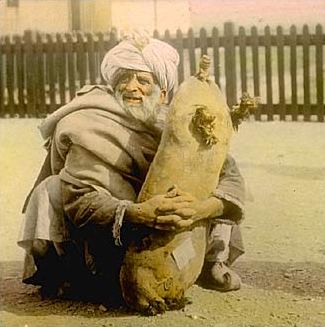 At Gulistan station on the Quetta Railway - an old man squatting with arms around sheepskin of water. (Jackson's own caption) Magic lantern image from Baluchistan